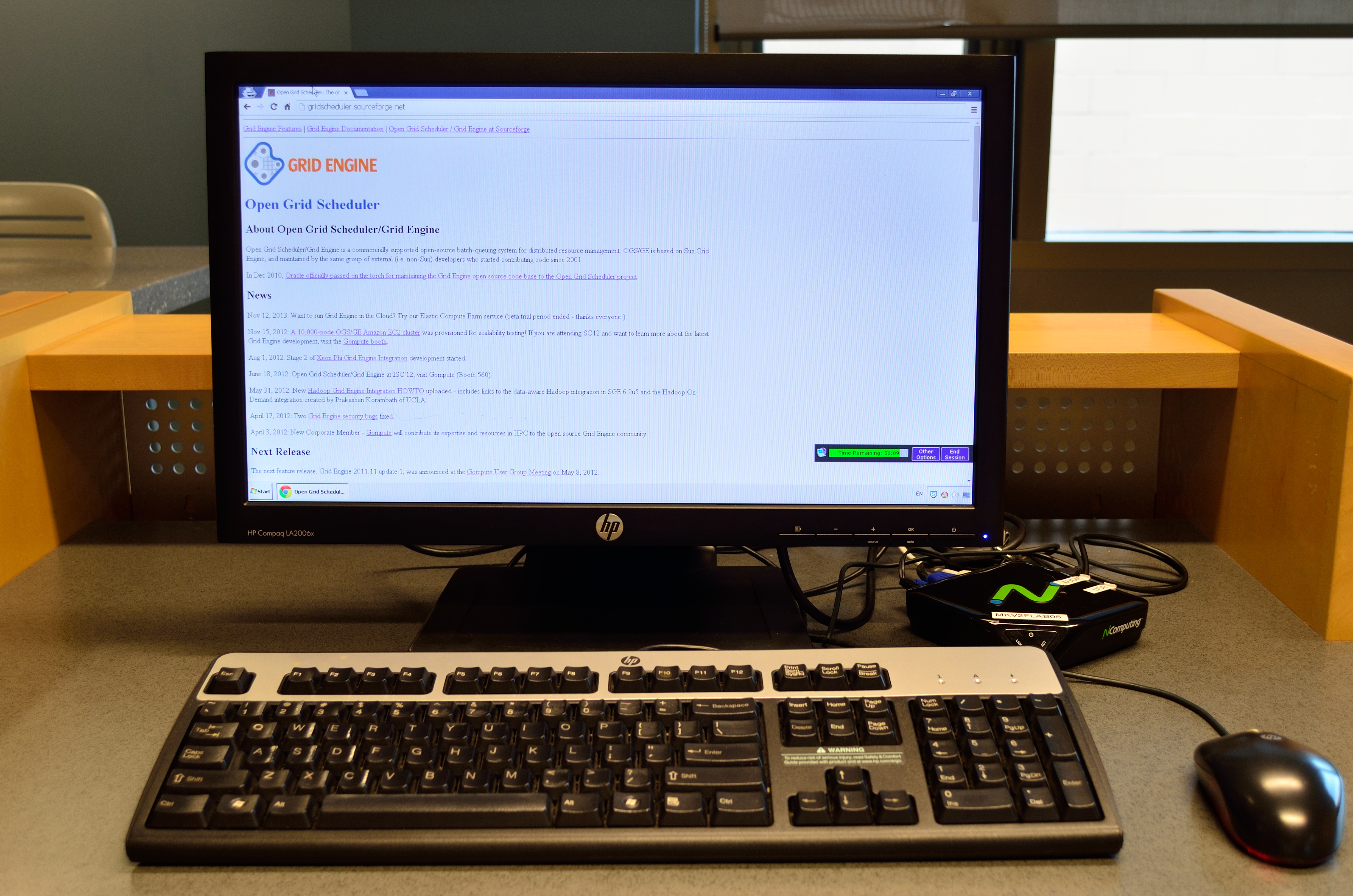 An NComputing L300 thin client